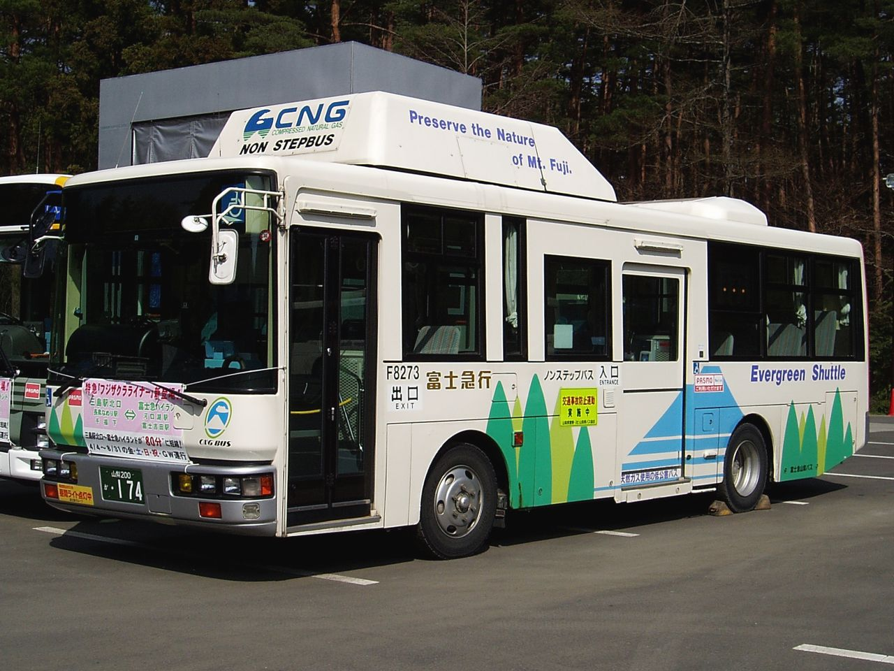 Nissan Diesel KK-RM252GAN for Fujikyu Yamanashi Bus F8273 "Evergreen Shuttle". Taken with permission.